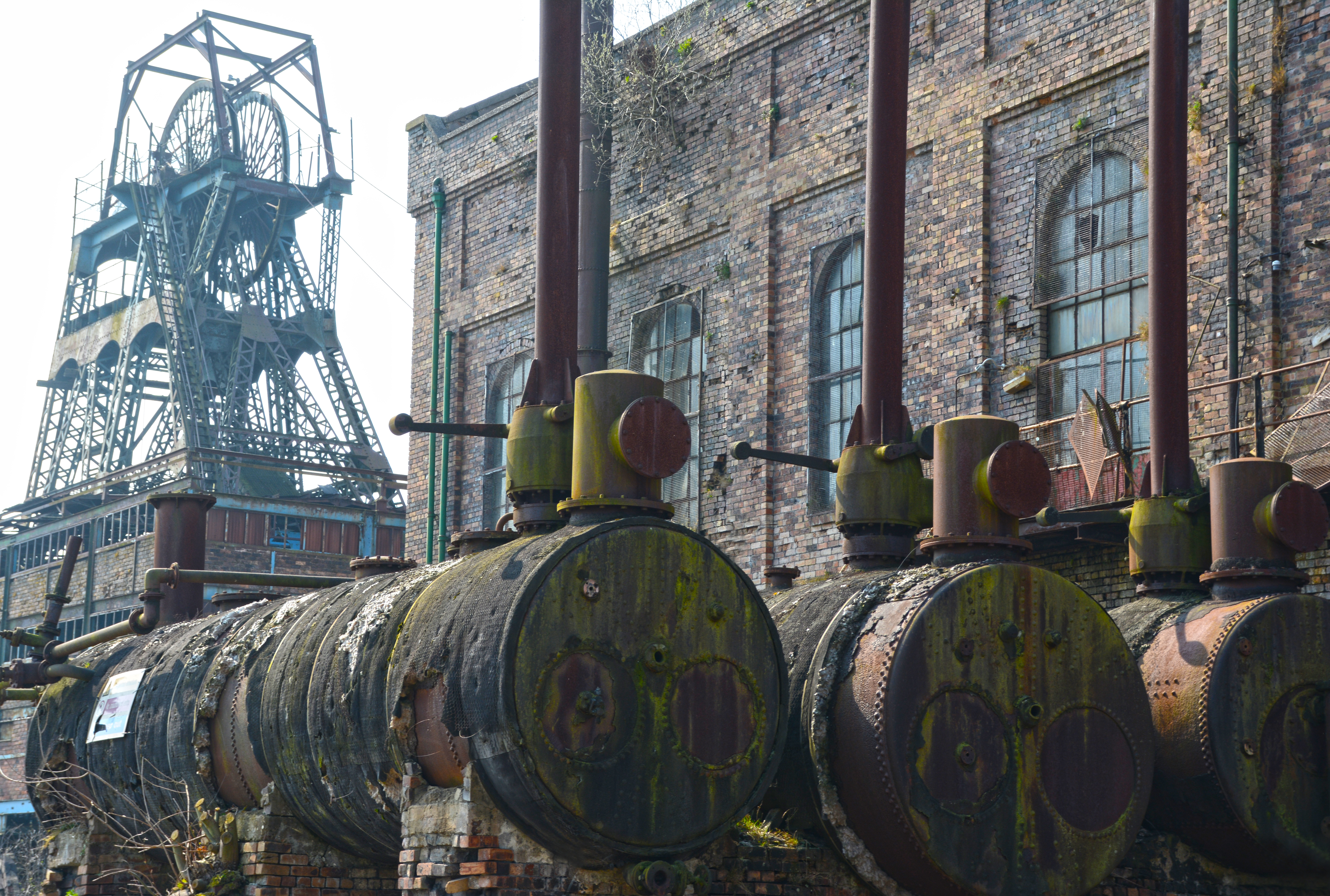 Colliery